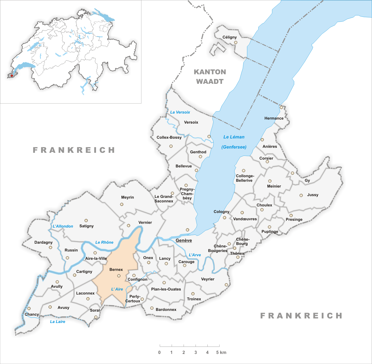 Municipality Bernex